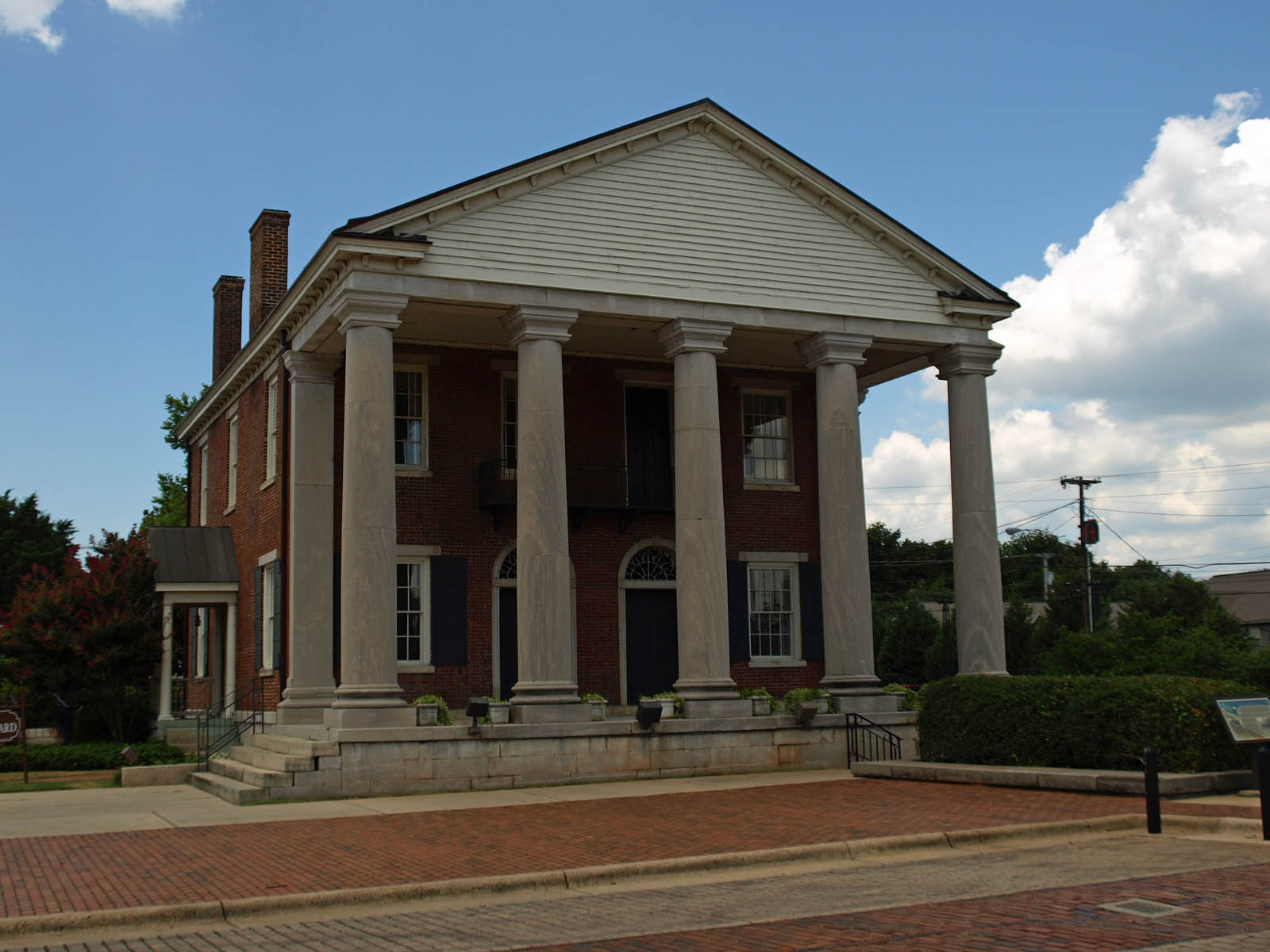 The Old State Bank Building in Decatur, Alabama, listed on the National Register of Historic Places.